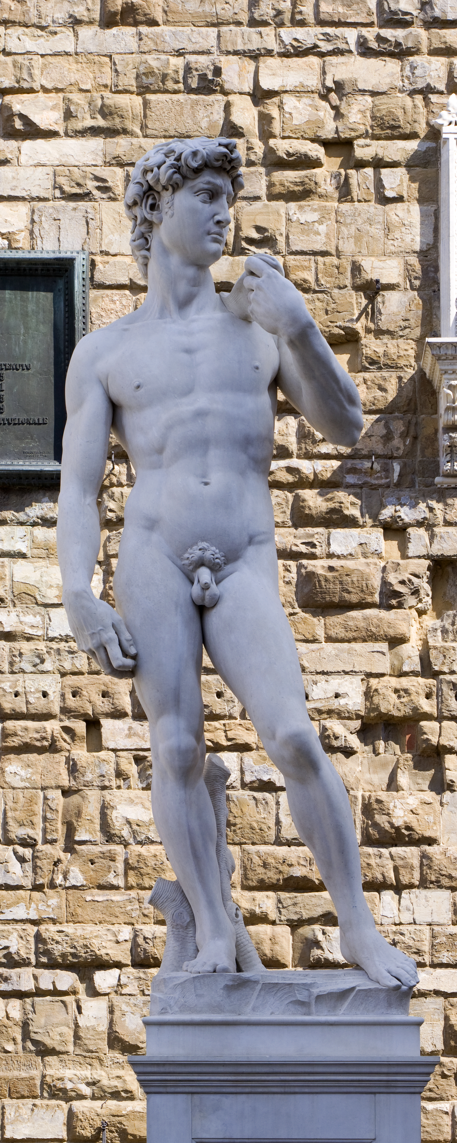 A vertical panorama of a copy of the statue of David by Michelangelo on the Piazza della Signoria in Florence, Italy.